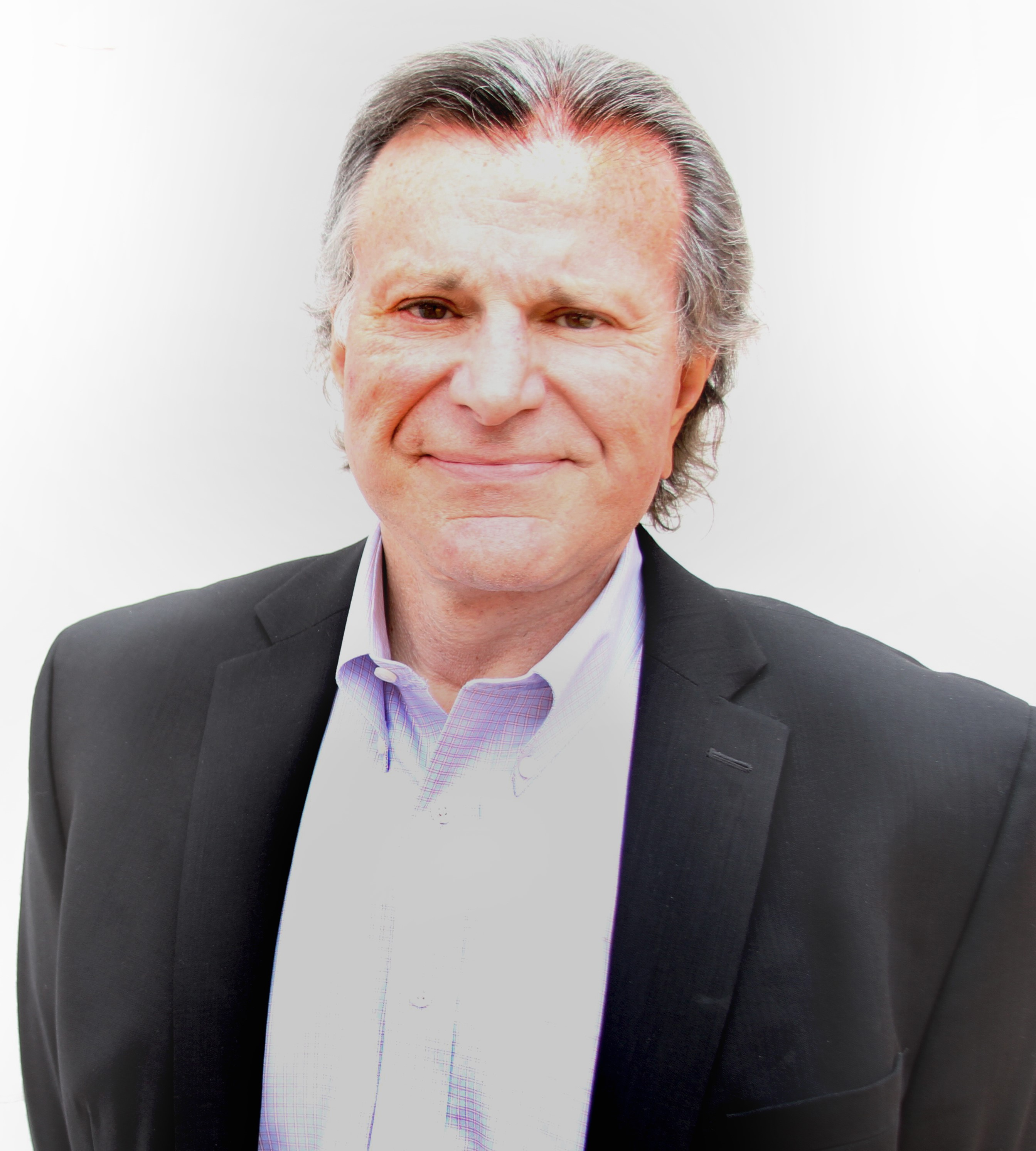 Economist, professor and author Thomas Winslow Hazlett